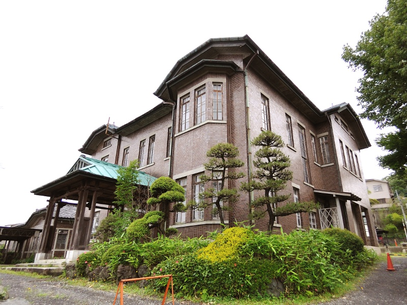 Old Ishikawagumi Seishi Western Style Building